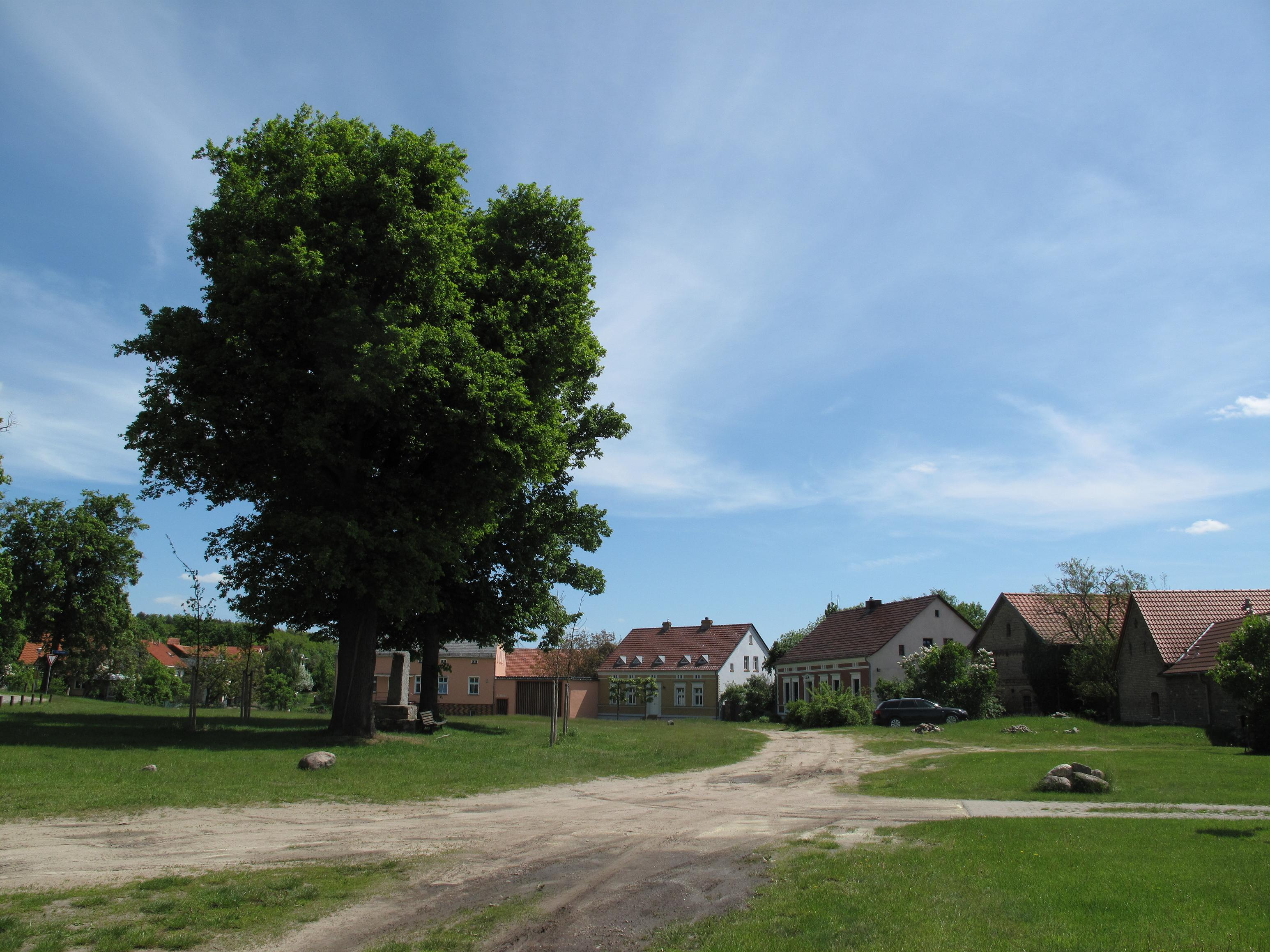 Village green in Fresdorf. Fresdorf is a part of Michendorf in the district Potsdam-Mittelmark, state Brandenburg, Germany.